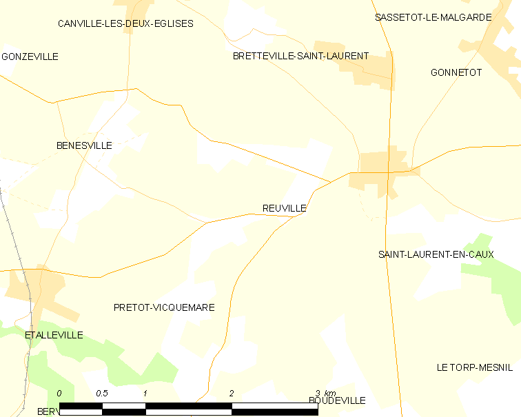 Map of French municipality Reuville